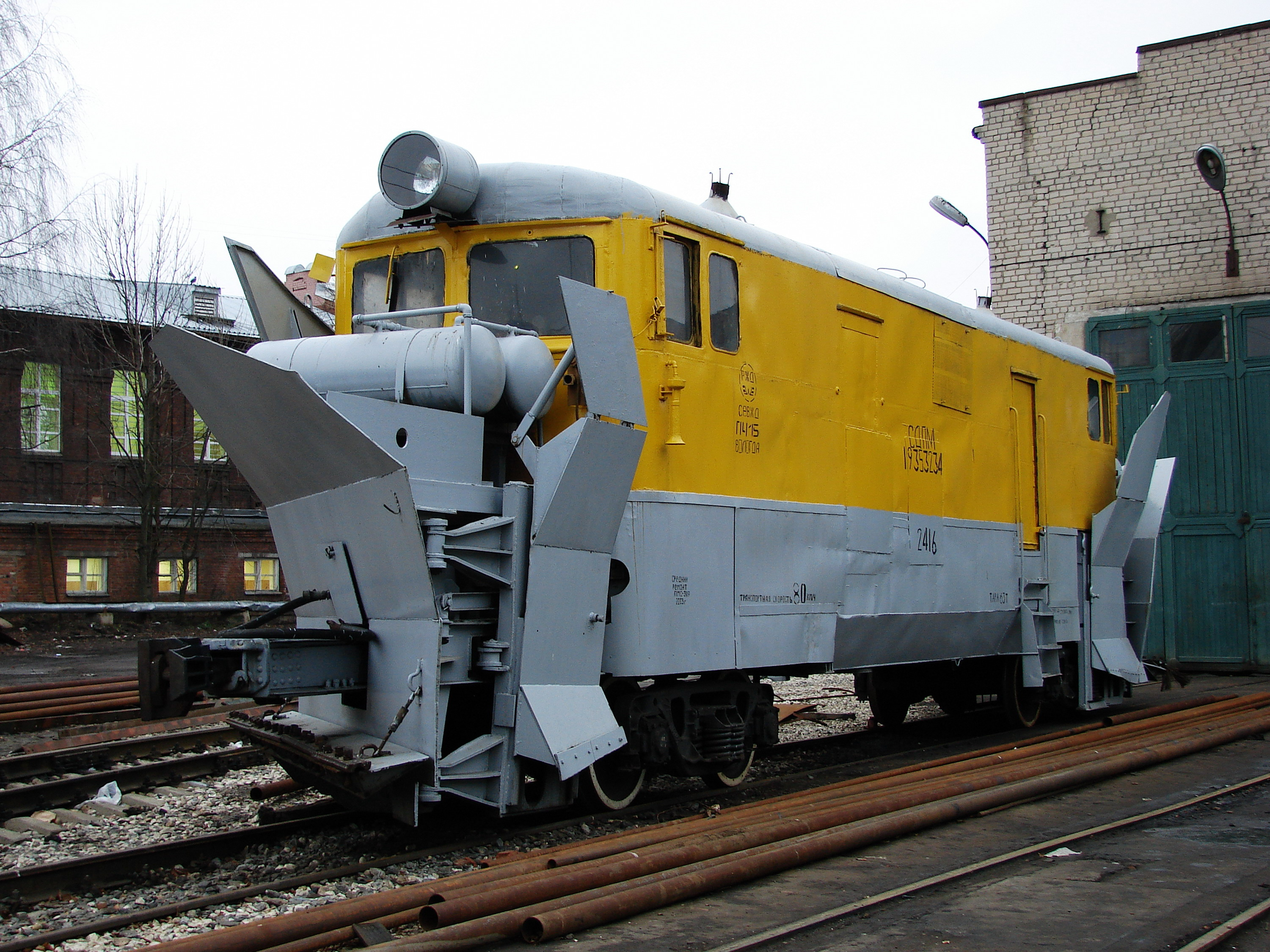 A Railway snowplough in Vologda.